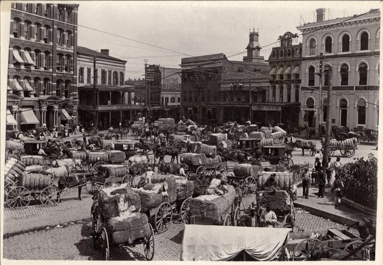 View of cotton being brought to market at Montgomery, Alabama, circa 1900. Photograph courtesy of the Ulrich Phillips Collection, Yale University Manuscripts & Archives Digital Images Database.